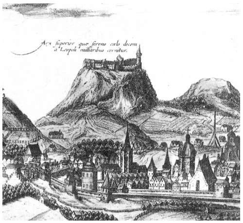 An engraving of the Lviv High Castle located in Lviv, Ukraine, made in the 17th century.